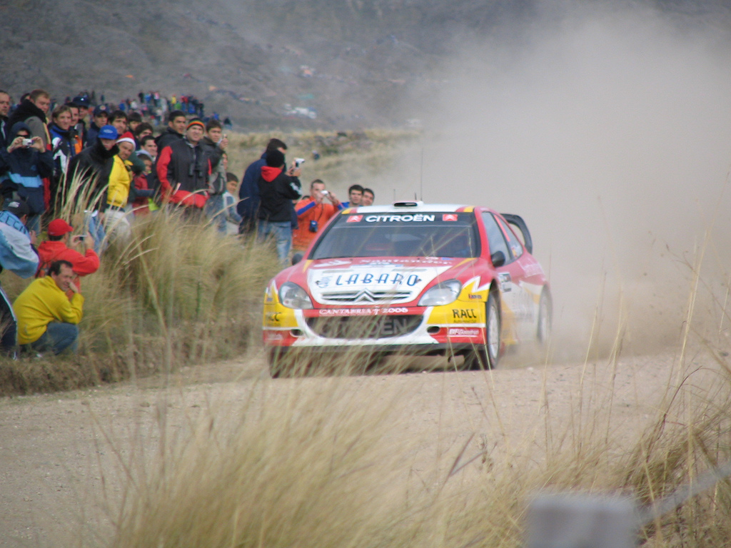 Dani Sordo driving his Citroën Xsara WRC on SS20 of the 2006 Rally Argentina.